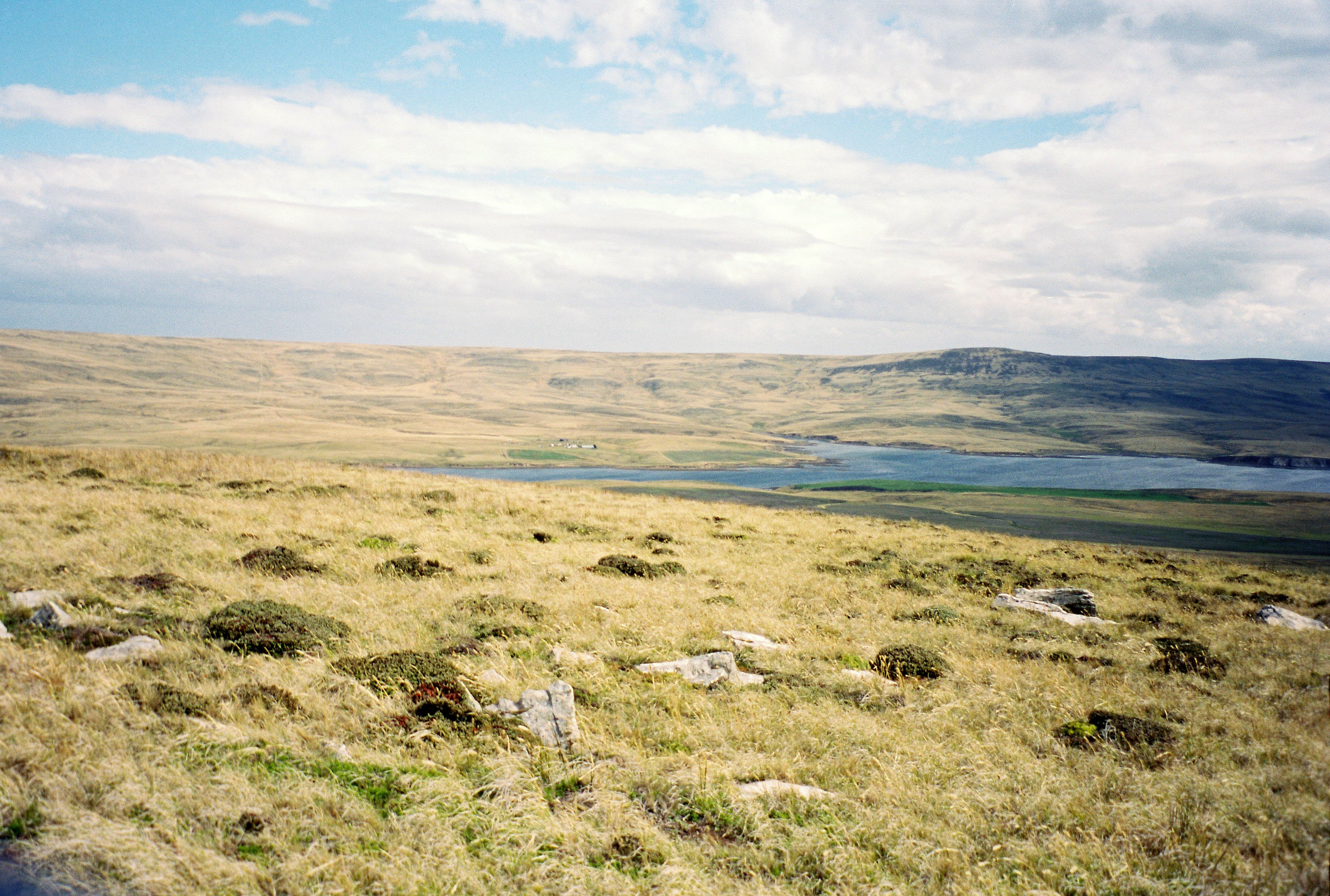 Blue Beach, San Carlos Water, Falkland islands